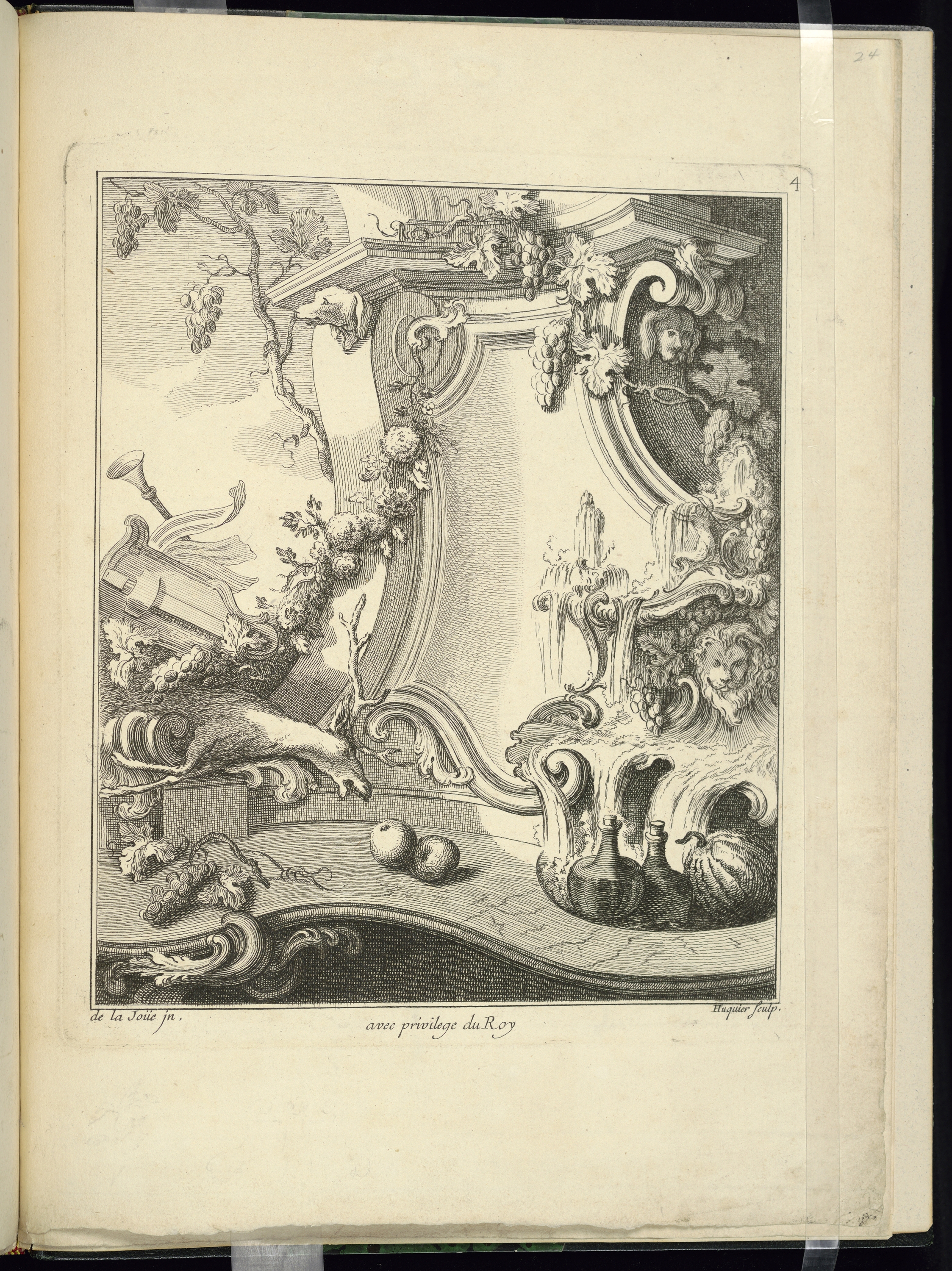 A cartouche configured to serve as a console. It is embellished with heads of dogs, clusters of grapes, garlands, and fruit. A fountain is at right, bottles and a large melon below. At left, a stag, a hurdy-gurdy with its horn and flags blowing in the wind.